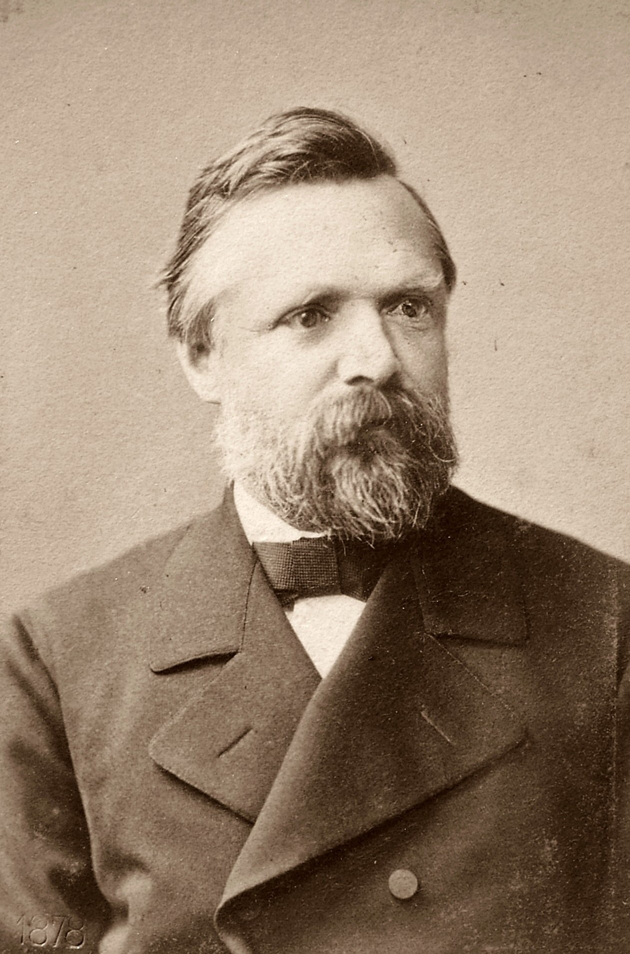 Portrait of Carl von Voit (1831 - 1908), physiologist and dietitian.